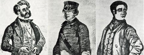 Woodcut of William George Tester, James Burgess and Edward Agar - conspirators in the Great Gold Robbery (1855)